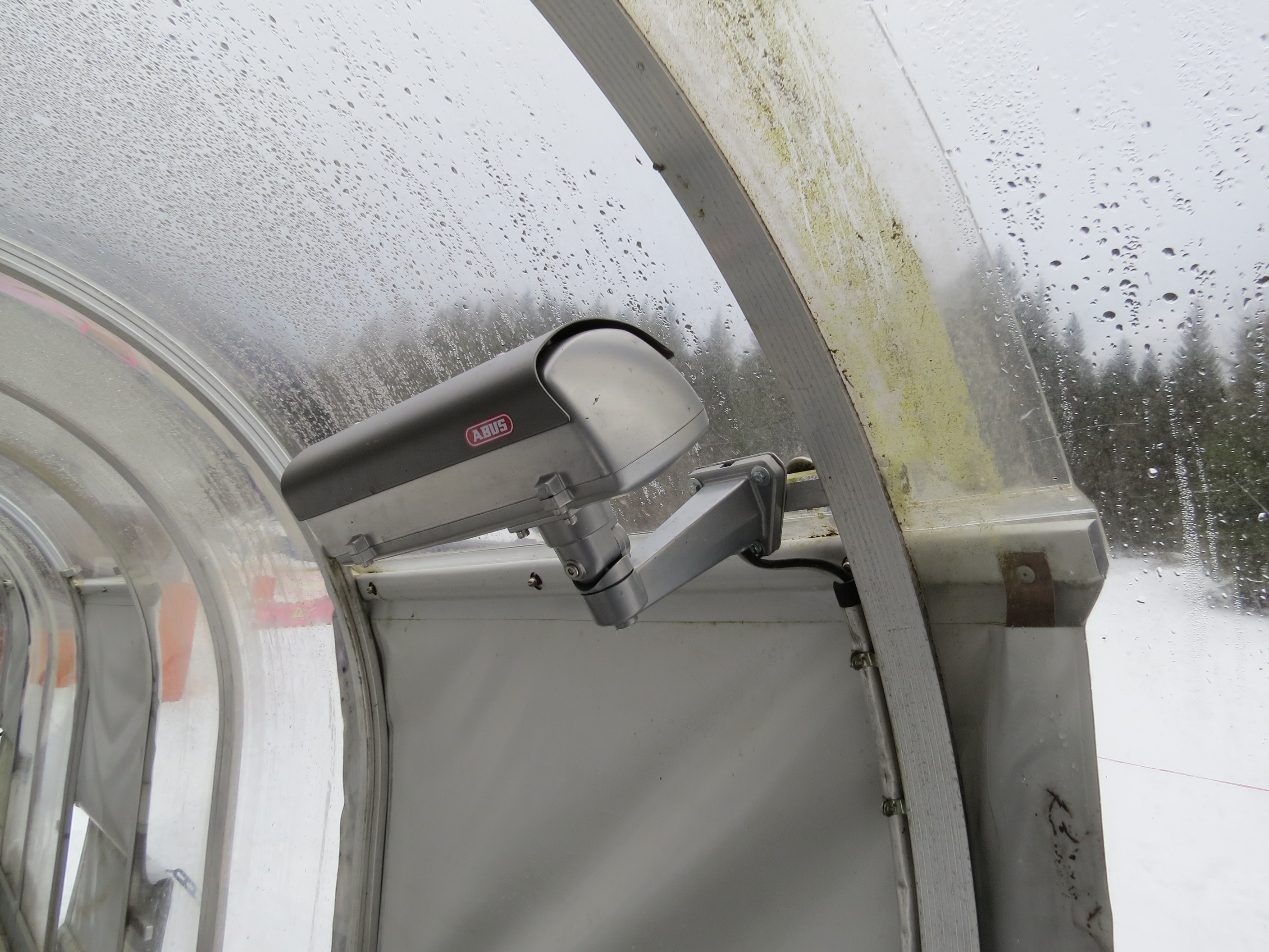 ABUS Security camera in Annaberg, Lower Austria